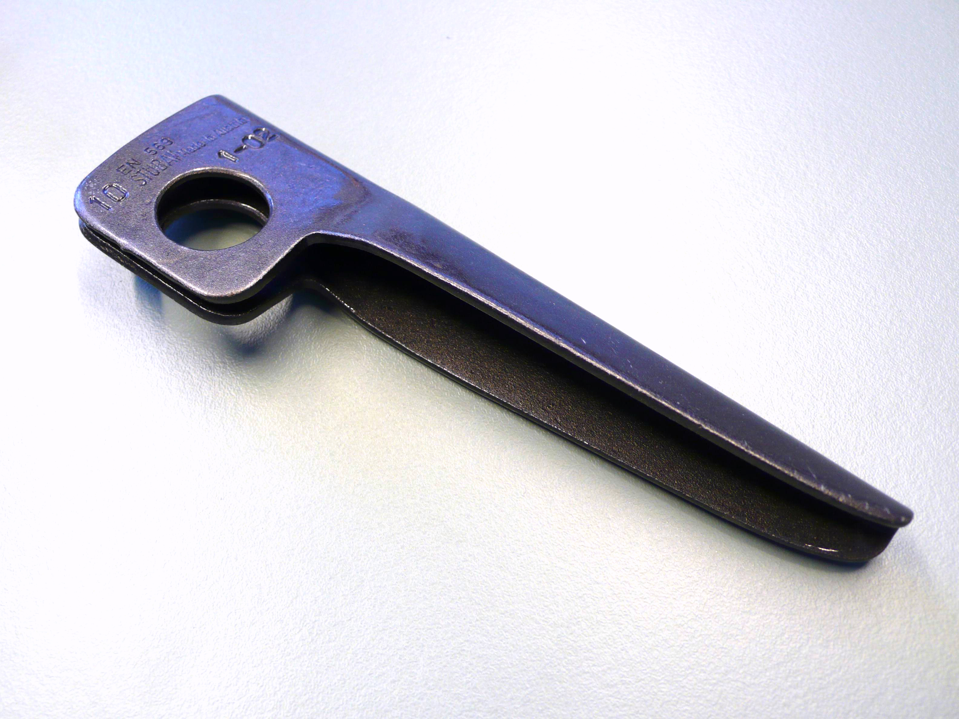 Profile piton - angle